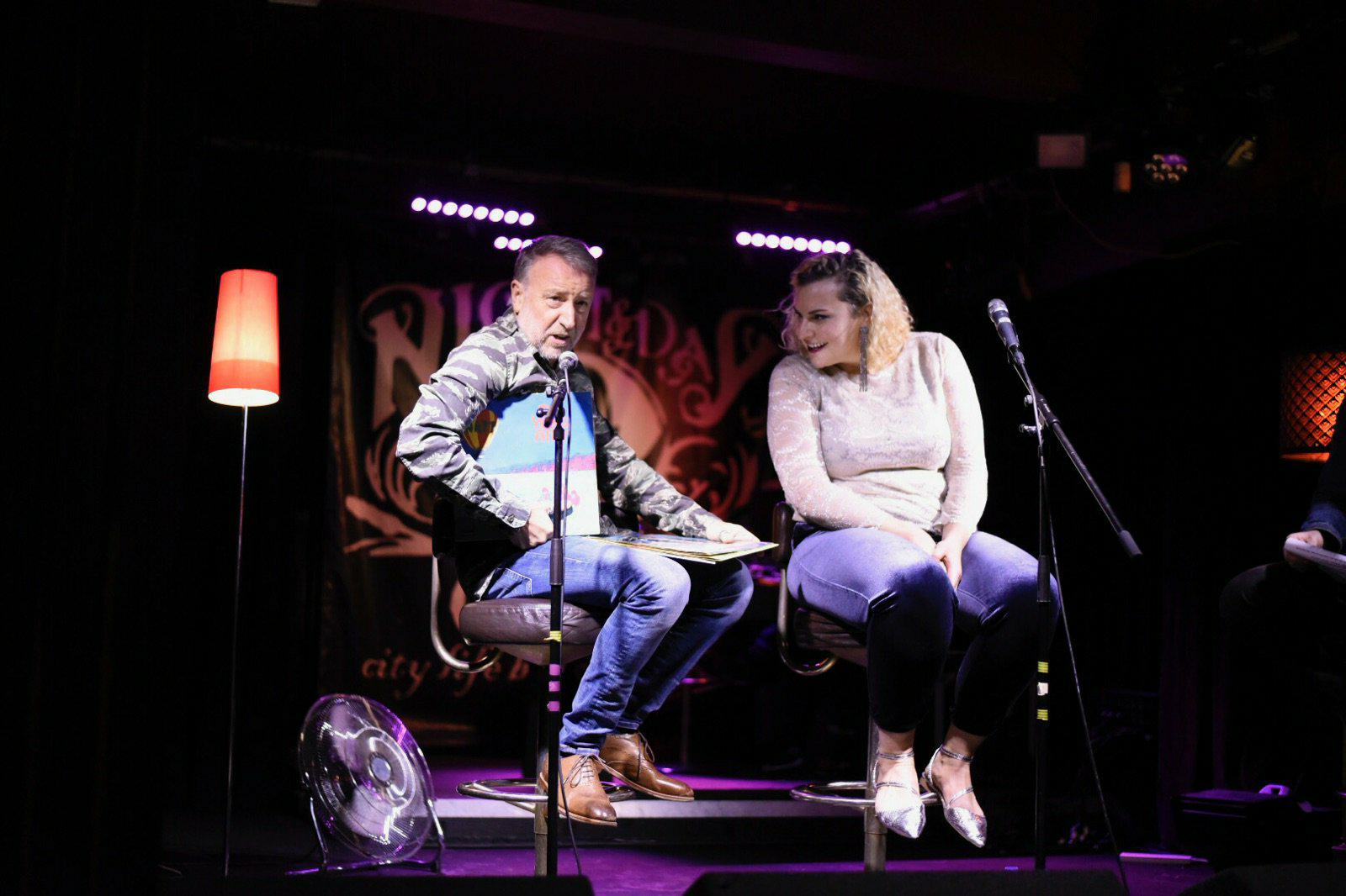 Peter Hook in Conversation with Jennifer Otter Bickerdike